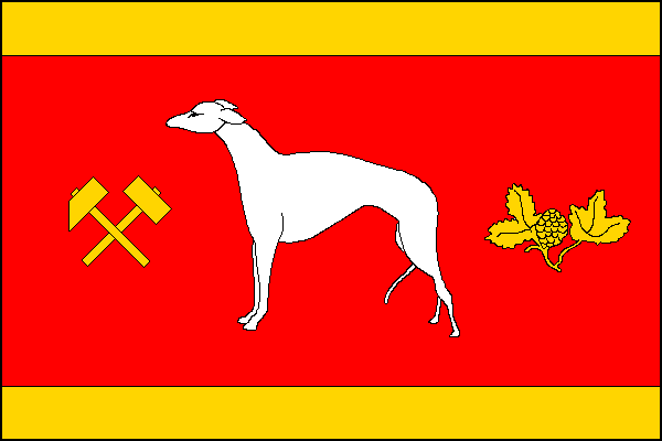 Municipal flag of Kroučová , District Rakovník, Czech Republic